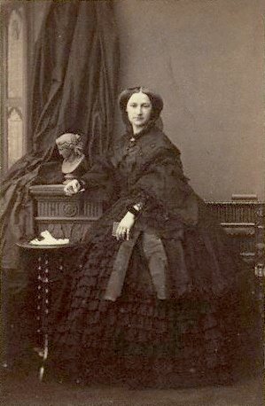 Adelheid Duchess of Schleswig-Holstein-Sonderburg-Augustenburg(1835-1900), born Princess of Hohenlohe-Langenburg, albumen carte-de-visite, part of the collection of twelve albums of photographic portrait (studio based at 38 Porchester Terrace, Bayswater, London.) in the National Portrait Gallery of London [1]